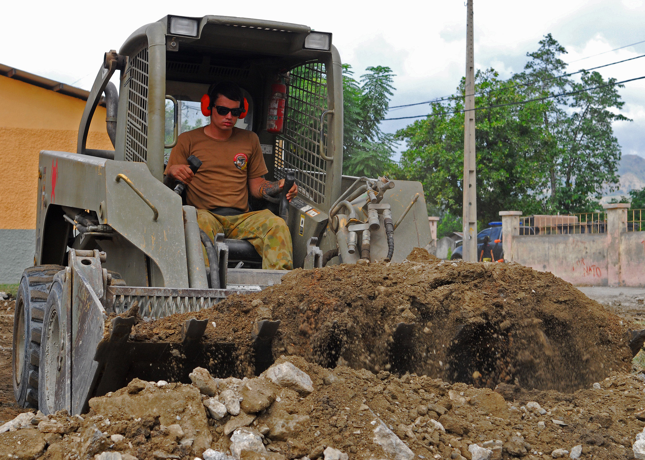 DILI, Timor-Leste (Aug. 12, 2010) Royal Australian Engineer Sapper Blake Newcombe, assigned to the International Stabilization Force, uses a skid steer loader to move dirt during a Pacific Partnership engineering civic action program event at Nu Laran School in Dili, Timor-Leste. Engineers from Australia, the United States and Timor-Leste are renovating a number of buildings at the school. Pacific Partnership 2010 is the fifth in a series of annual U.S. Pacific Fleet humanitarian and civic assistance endeavors to strengthen regional partnerships. (U.S. Navy photo by Mass Communication Specialist 2nd Class Eddie Harrison/Released)